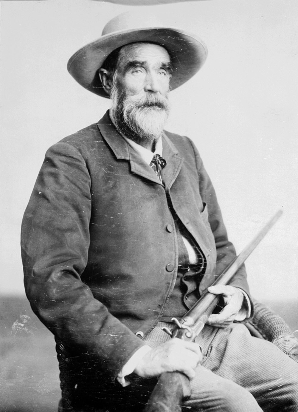 Portrait von Thomas Jonathan JEFFORDS